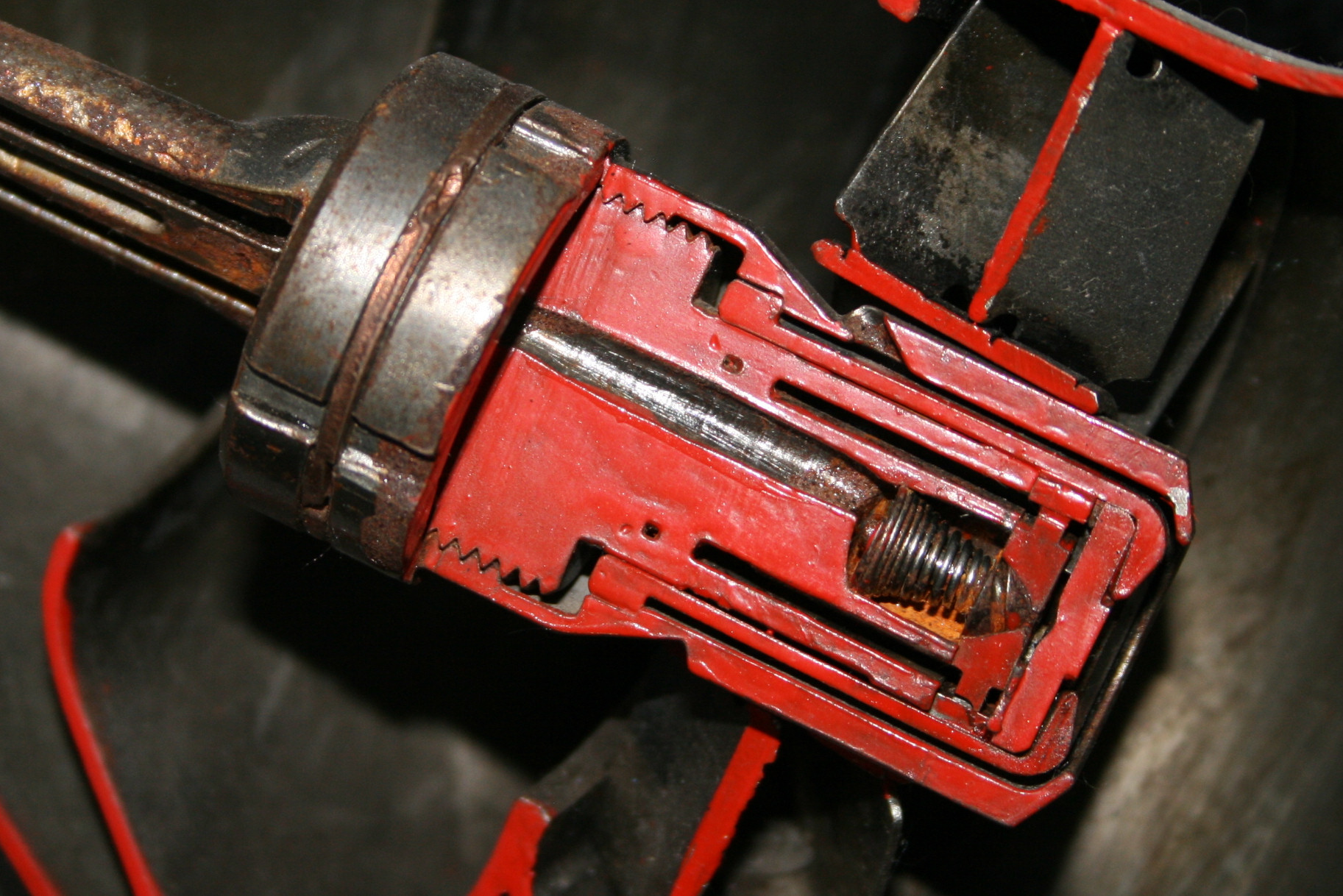 Injector of RD-45F aircraft engine (Motorlet Jinonice, 1951)